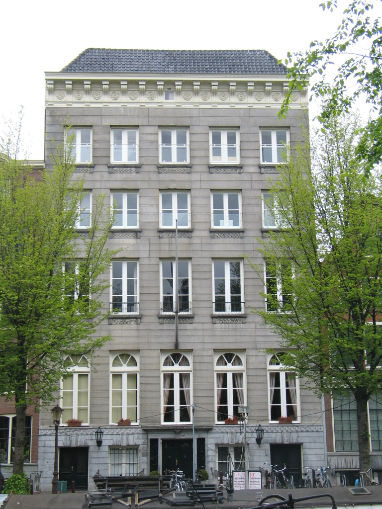 The Amsterdam mansion of Charles-François Lebrun, between 1810-1813 governor-general of Holland